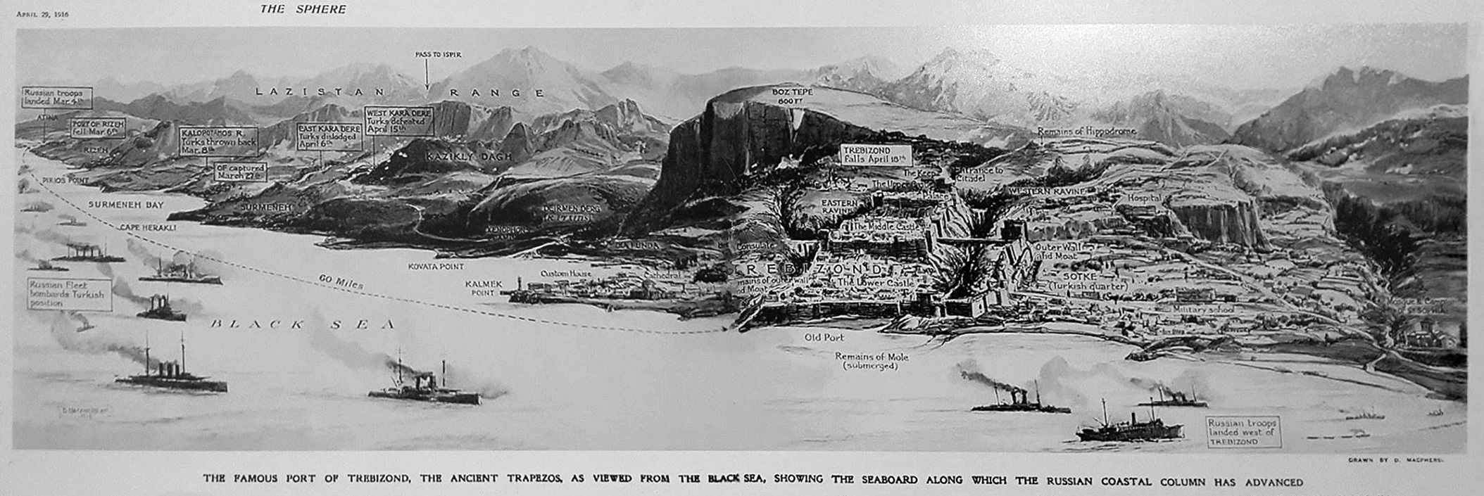 Illustration by the magazine The Sphere in 1916 showing the advance of the Russian front on Trebizond (Trabzon, Turkey).